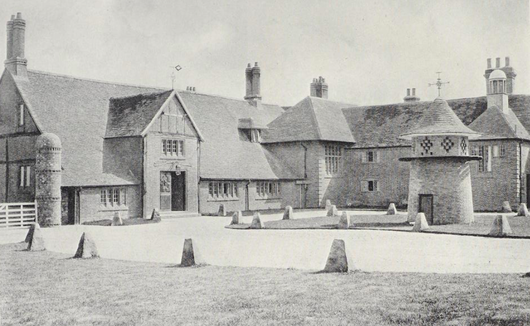 Little Pednor, Chesham by James Edwin Forbes and John Duncan Tate. From The Studio Yearbook of Decorative Art 1913